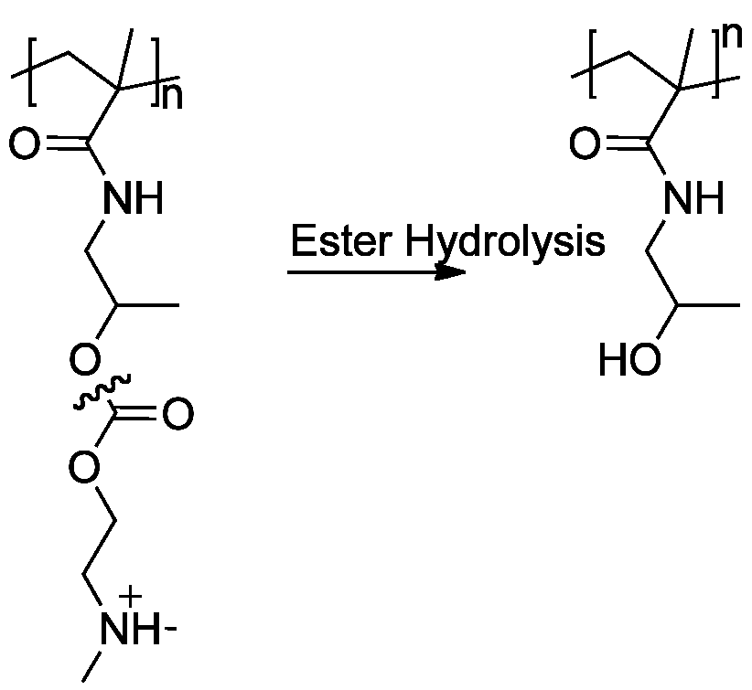 ester bond cleavage